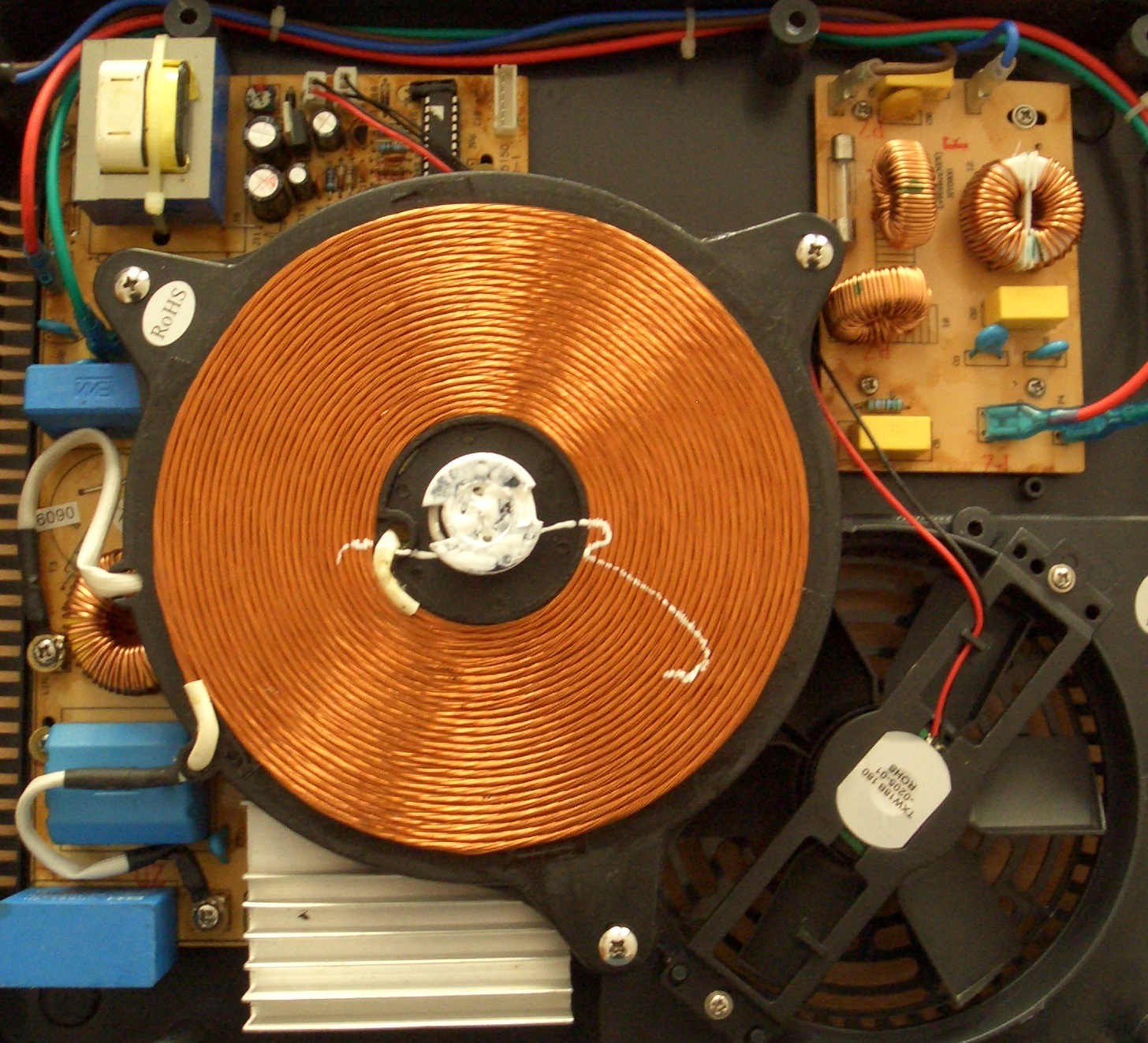 Electronics and coil inside of an induction cooker.